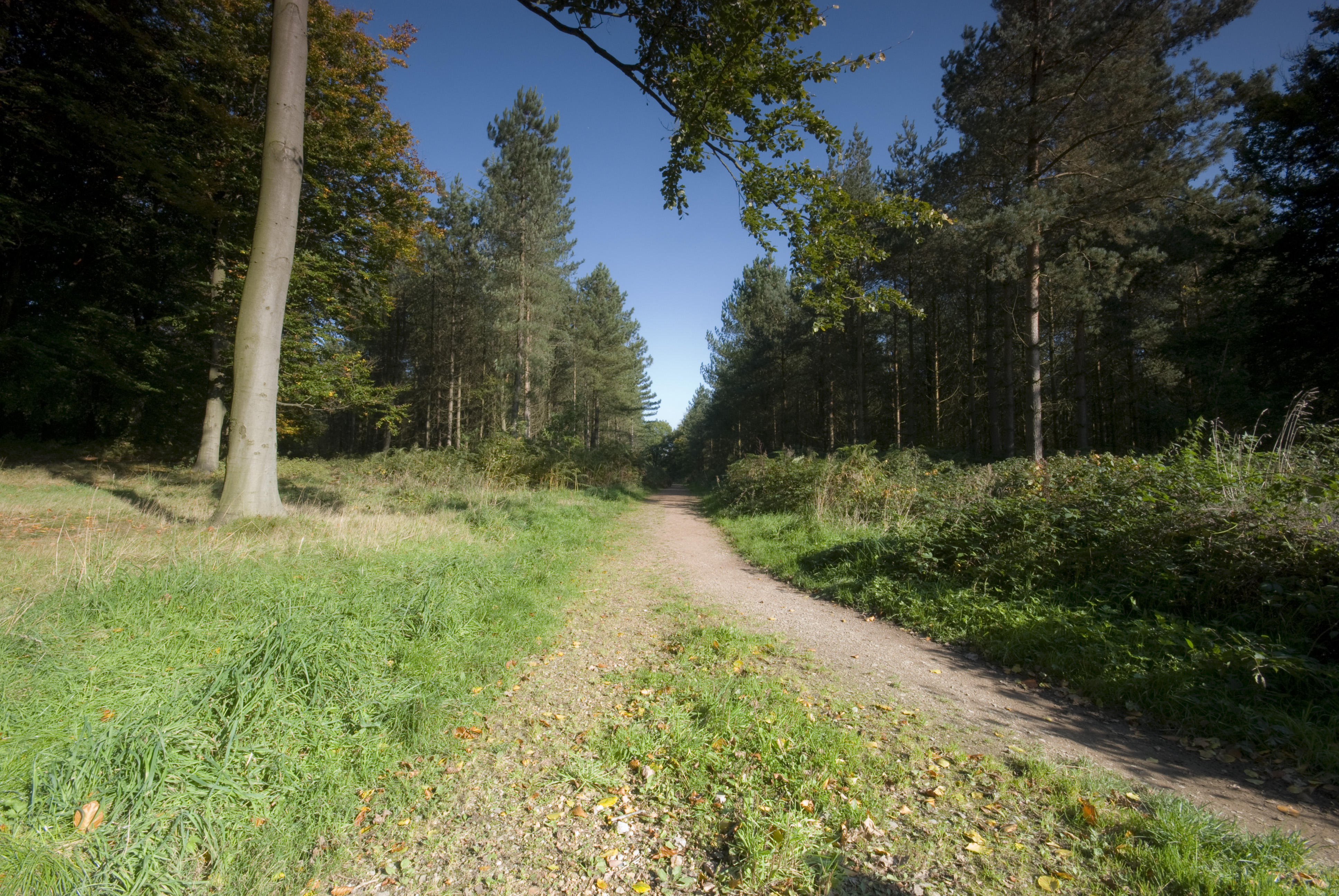 A path in the Beaudesert Old Park area in the south east of Cannock Chase